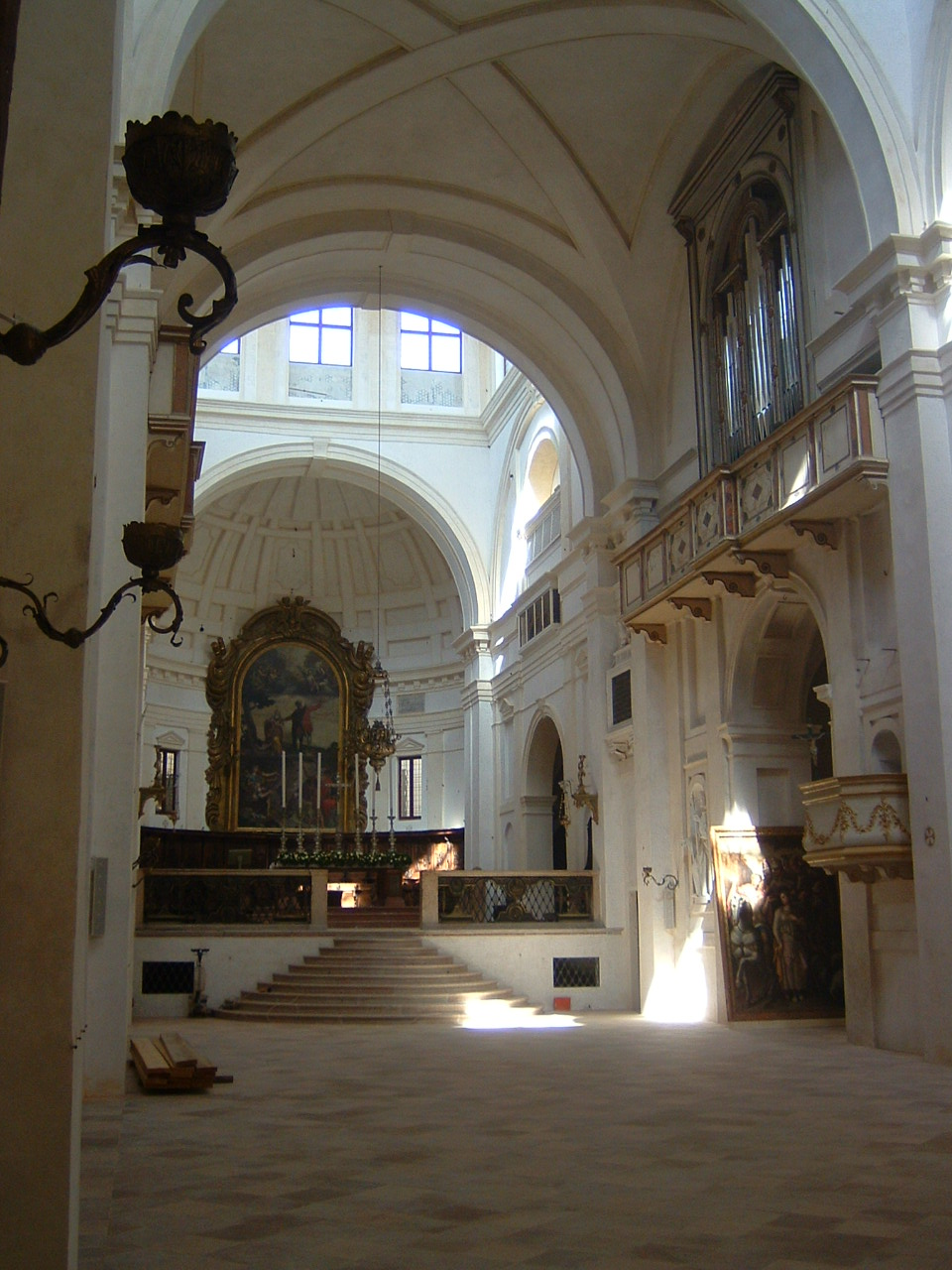 Interior of the Church of Santa Barbara, in Mantova.